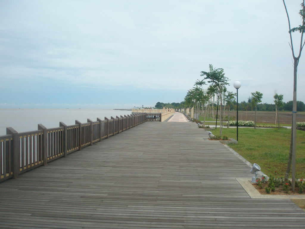 Bintulu Prominade